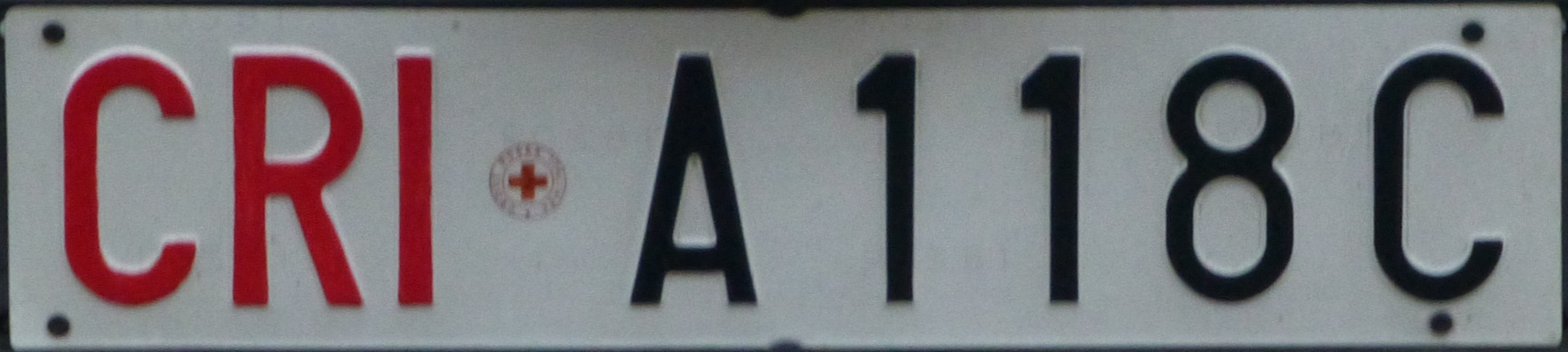 License plates of the Italian Red Cross (Croce Rossa Italiana, CRI) until 2007